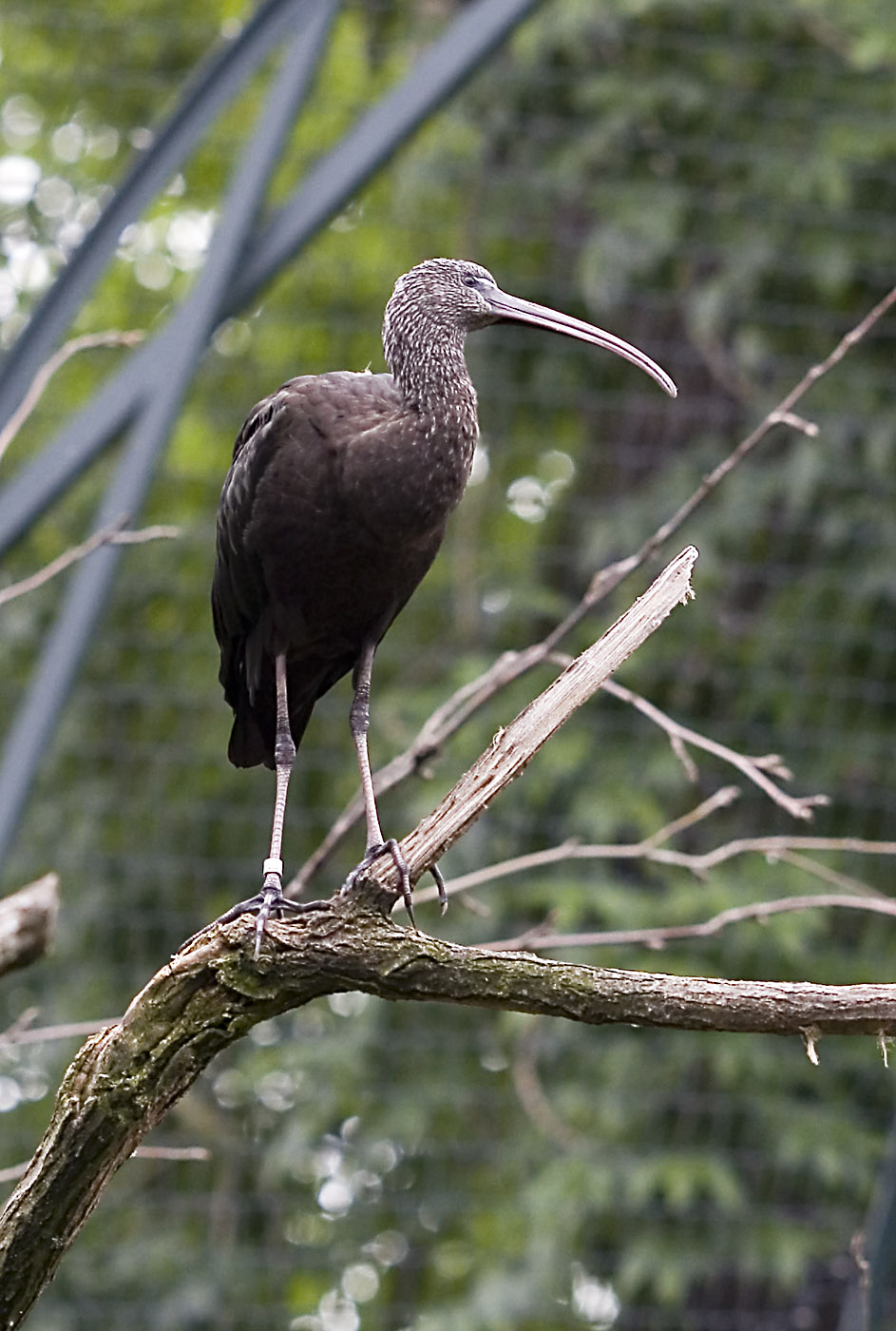 Glossy Ibis (Plegadis falcinellus)